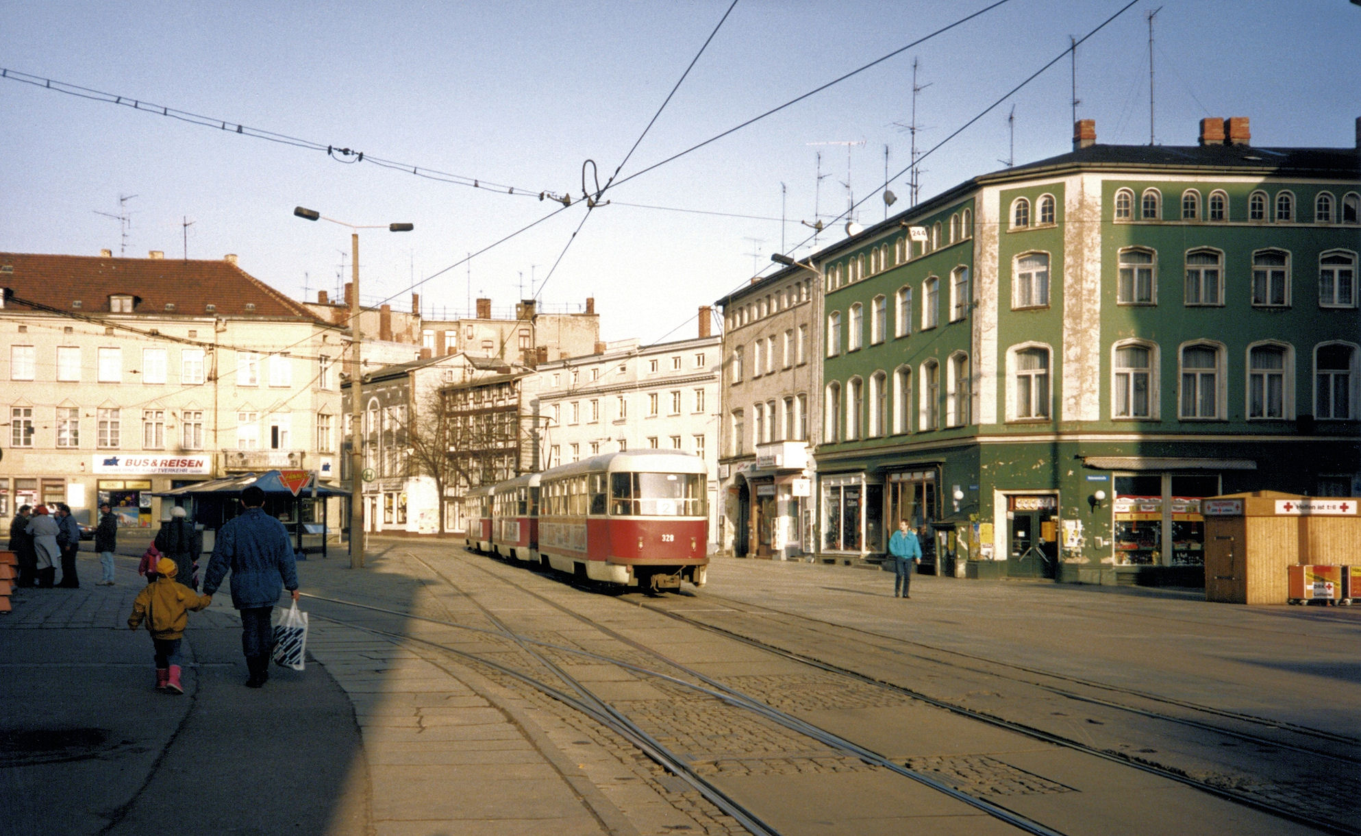 Schwerin Marienplatz